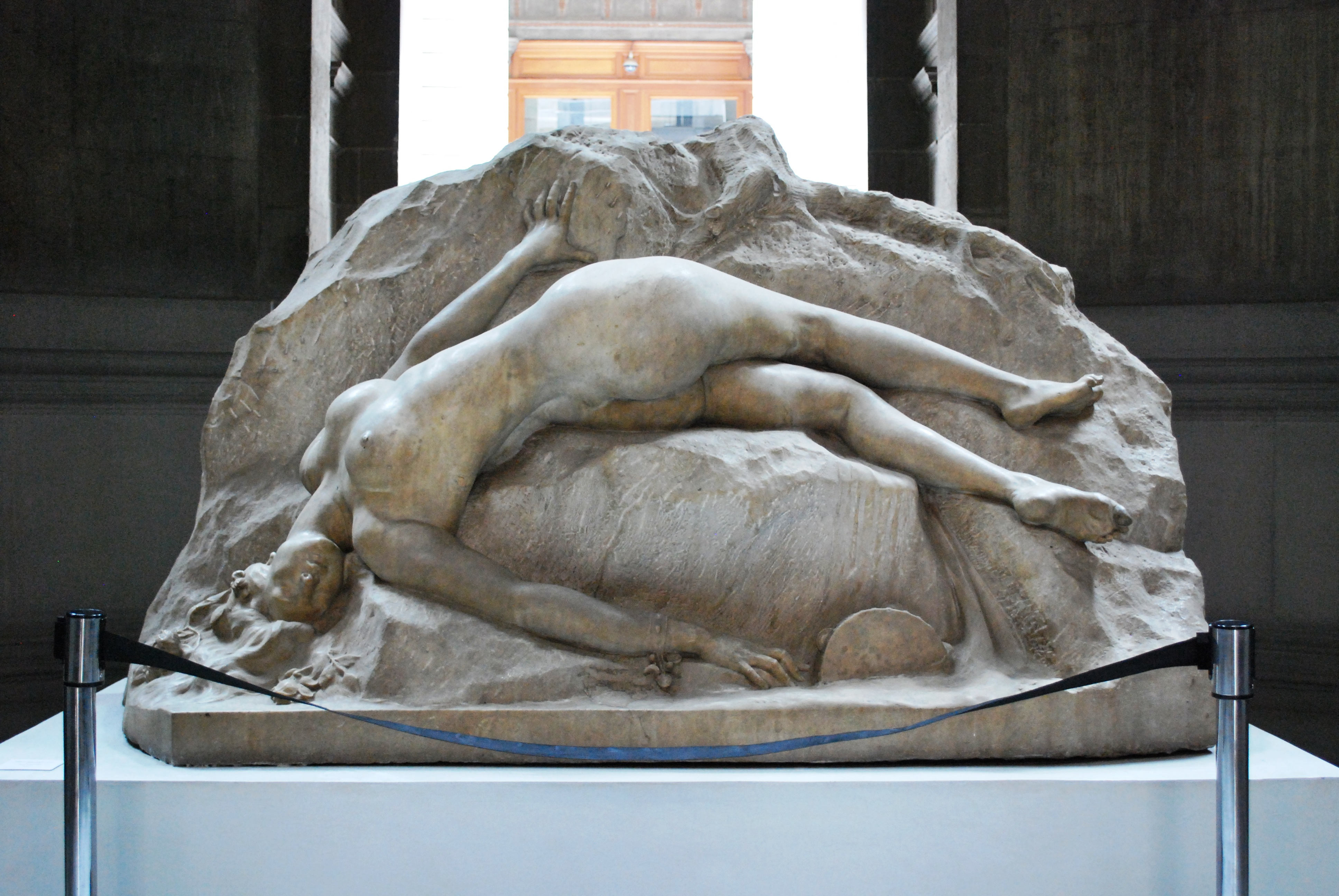 Apres L'orgie by Fidencio Lucano Nava (1869-1938) done in 1909 at the Museo Nacional de Arte in the historic center of Mexico City